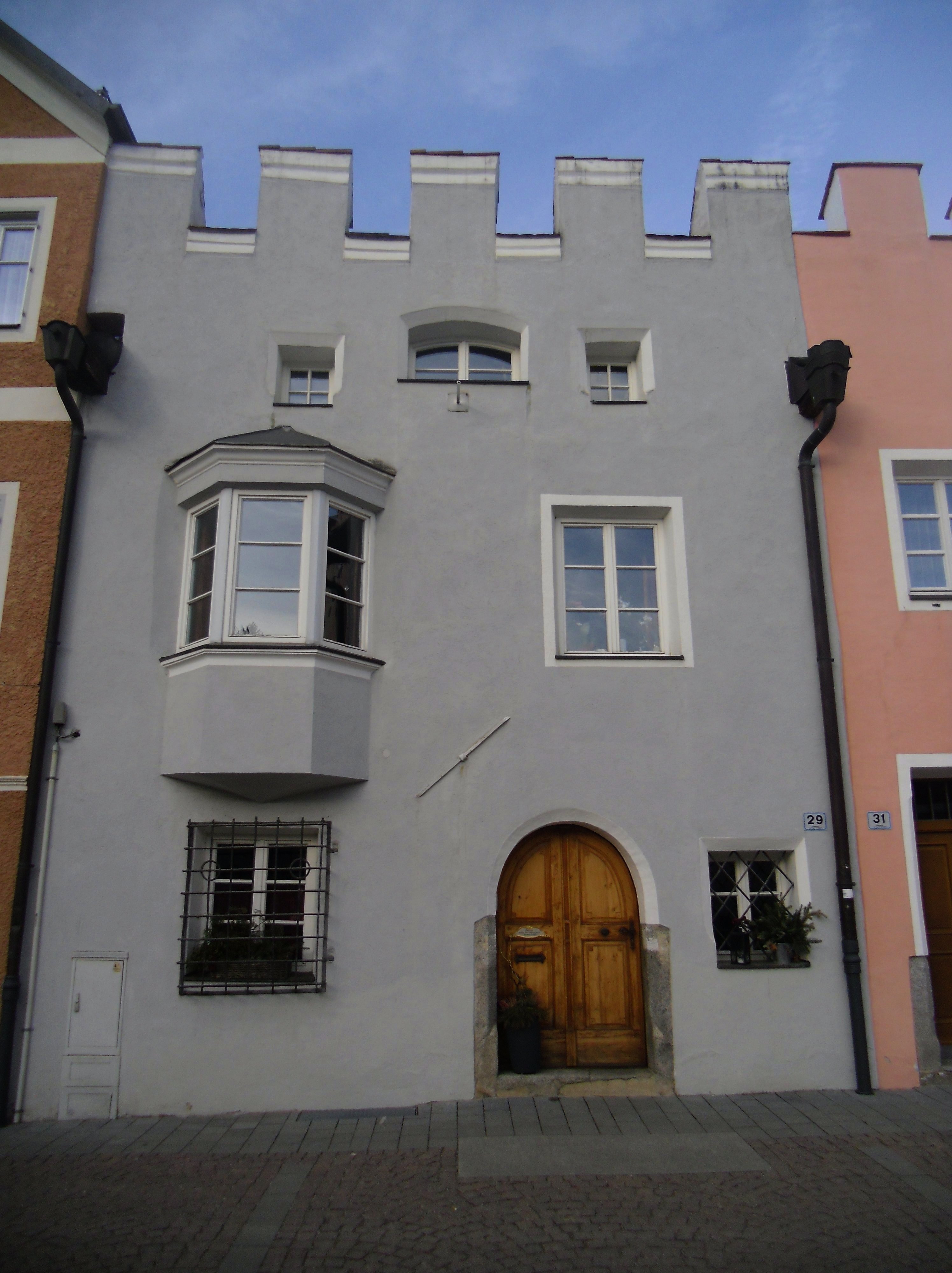 Oberragen 29